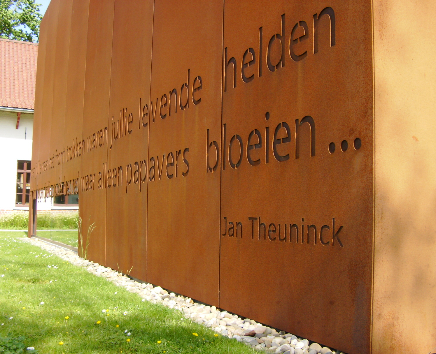 A poessay, named Tyne Cot, by Belgian artist Jan Theuninck is cut in the corten steel wall of the new library in Zonnebeke, a village in Flanders Fields, the batllefields of the Great War. This text refers to Tyne Cot Cemetery, the largest cemetery for Commonwealth forces on the continent. The library, a work by Belgian architect Wim Supply, is located in the Chateau Park, where you also find the Memorial Museum Passchendaele 1917.